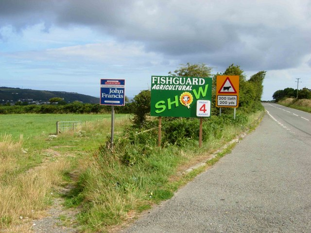 Approaching Fishguard on the A40. Motorists arriving in Fishguard are left in no doubt about the forthcoming local agricultural show.